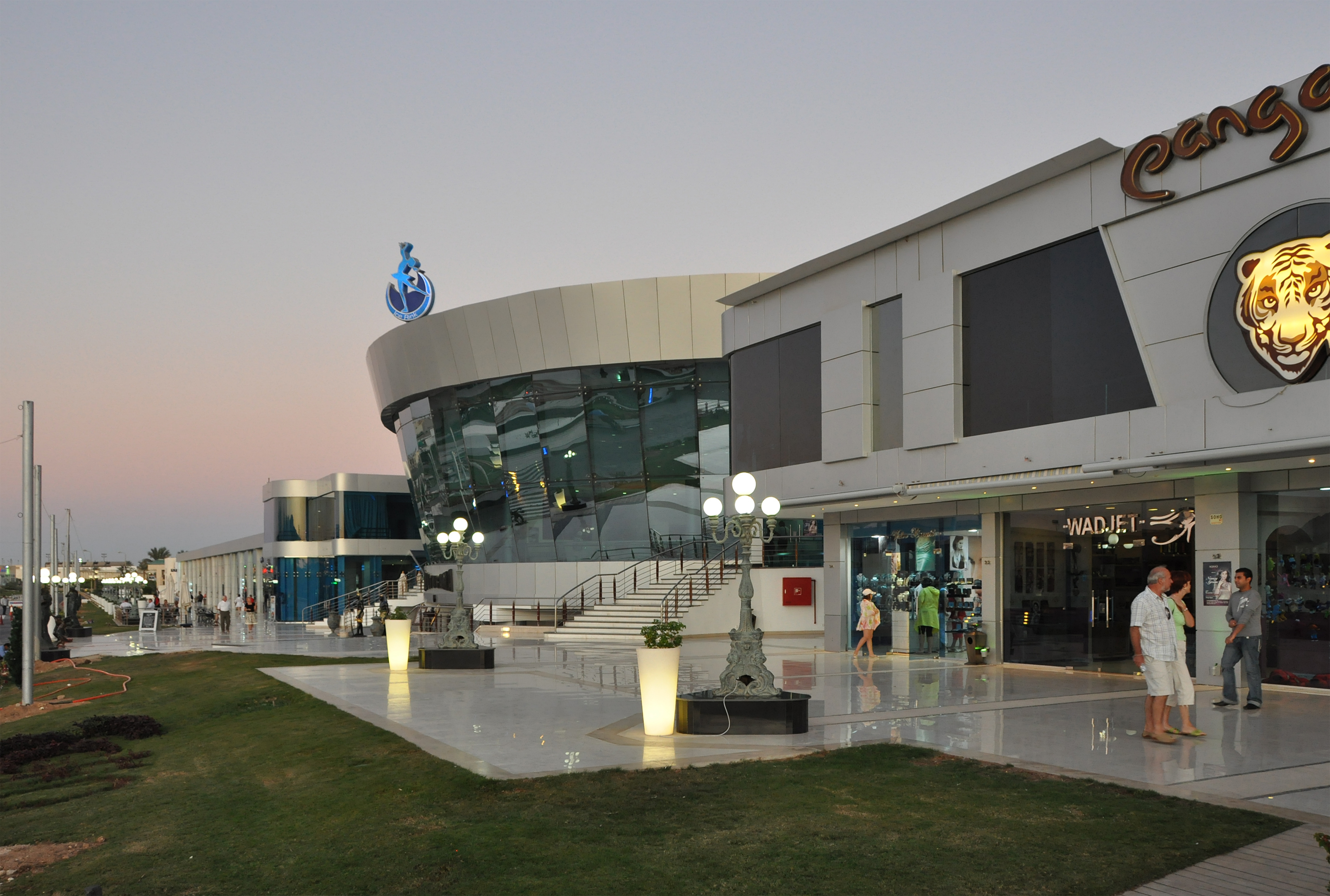 Sharm el-Sheikh (Egypt): Soho Square shopping mall at White Knight Bay